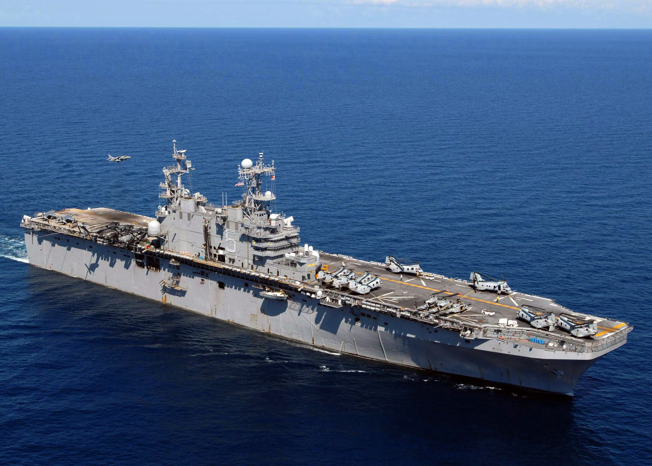 An AV-8B Harrier assigned to Marine Attack Squadron (VMA) 311 lands aboard the Tarawa-class amphibious assault ship USS Peleliu (LHA 5) as it steams through the South China Sea. Peleliu is the flaghsip of the Peleliu Expeditionary Strike Group and is on a scheduled deployment.